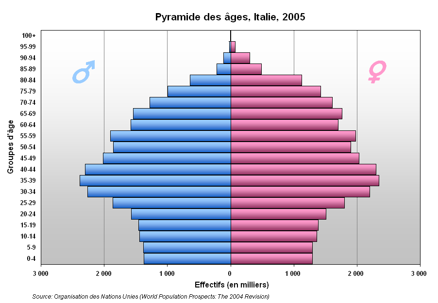 Italy Population pyramid, 2005